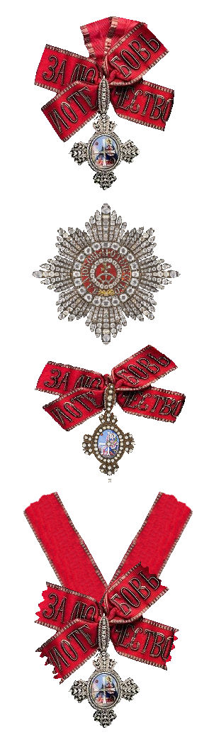 Order of St Catharine